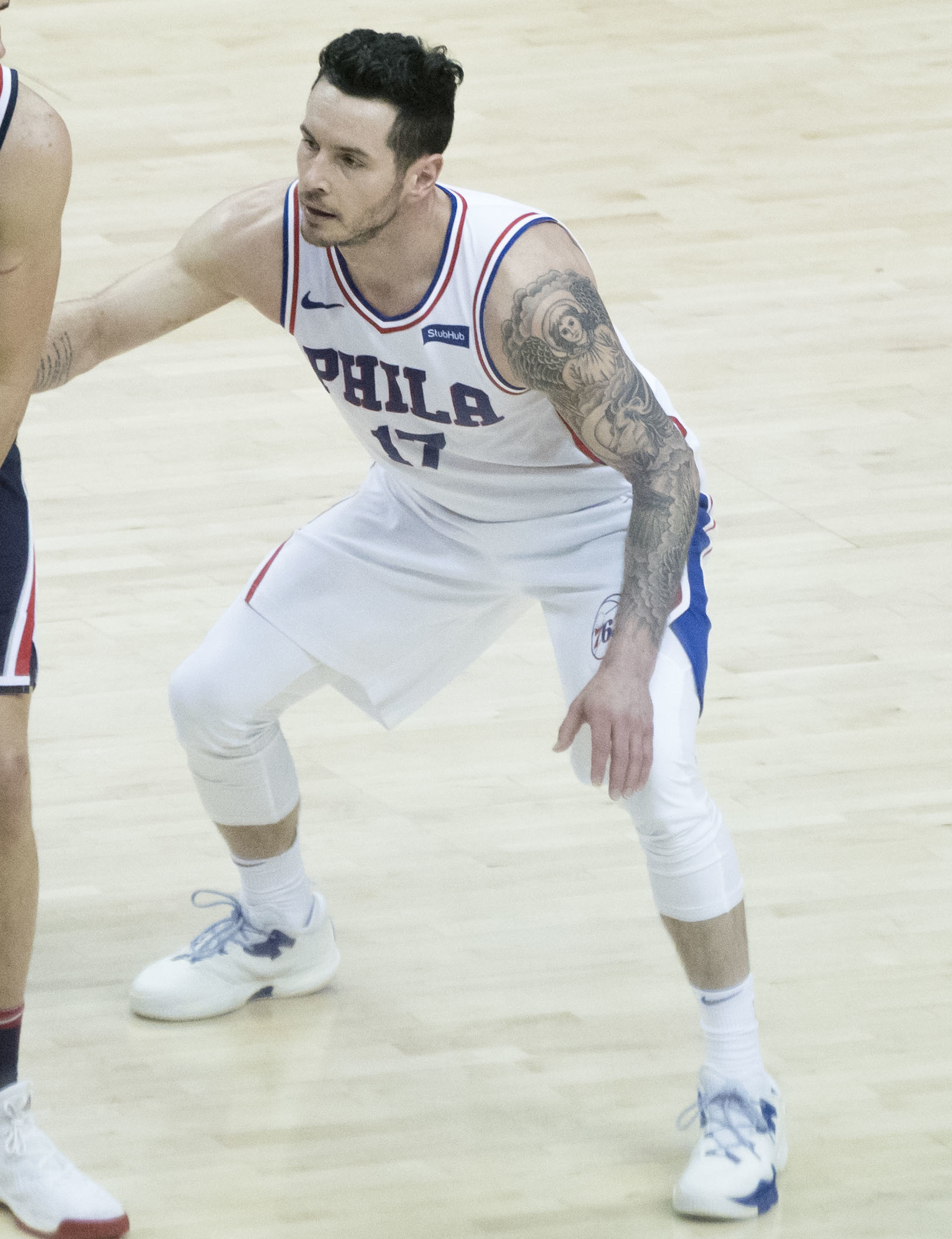 76ers at Wizards 2/25/18